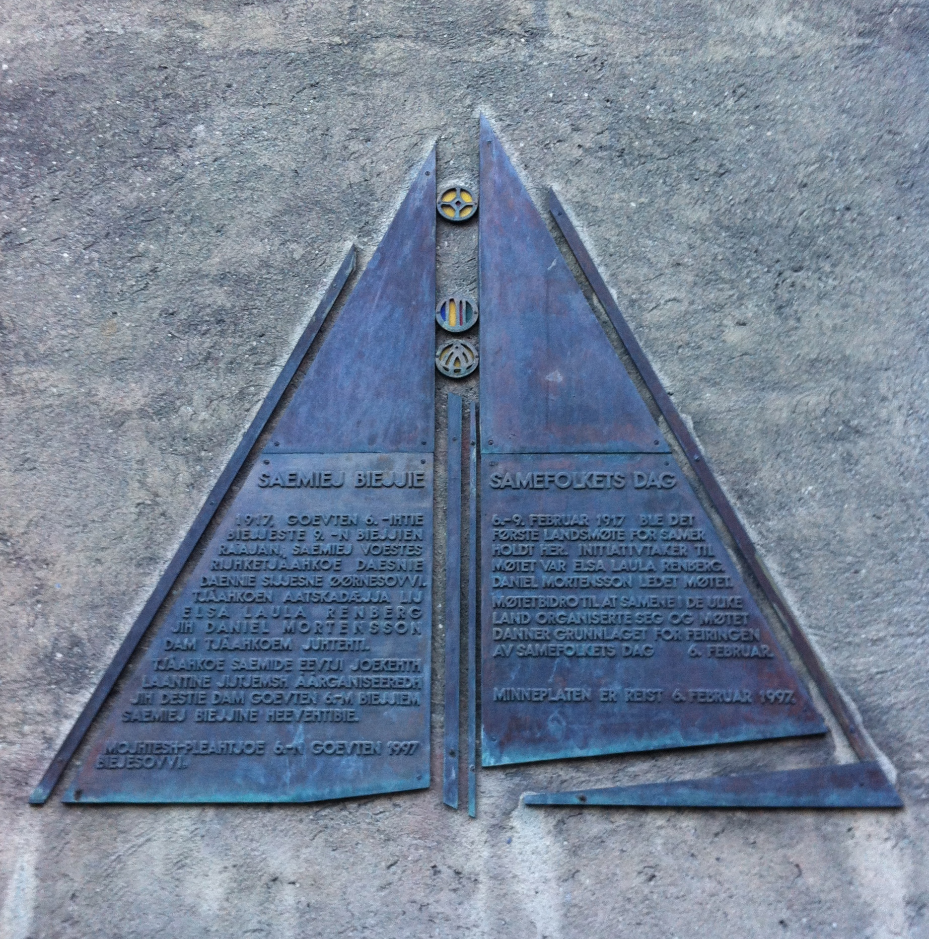 Plaque commemorating the first national convention of the Sami people. It was arranged in Trondheim, Norway, on February 6, 1917. Artist: Mathis Nango